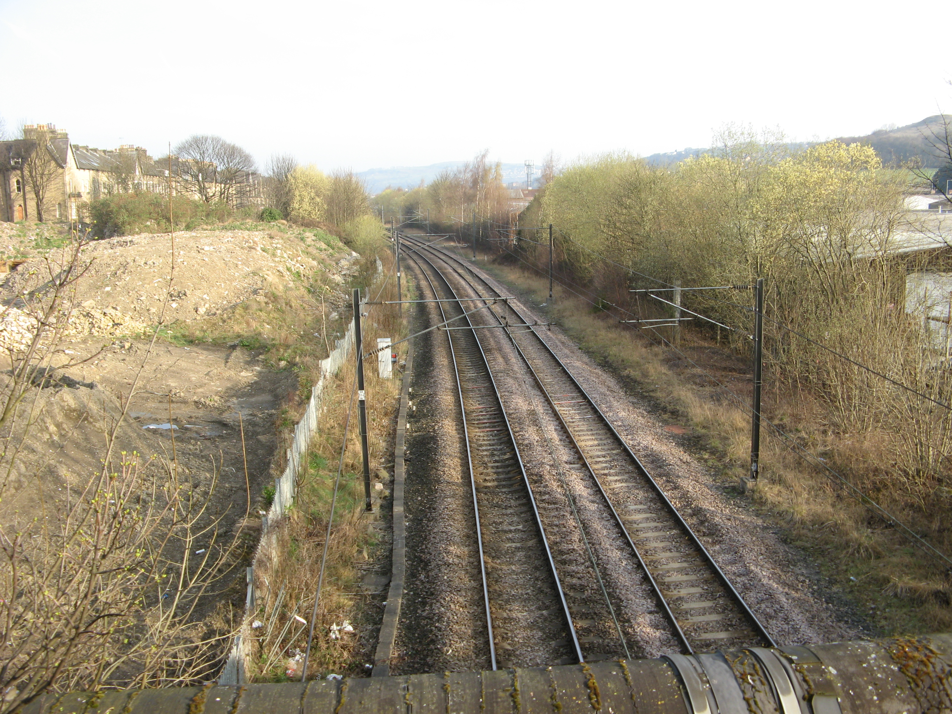 View north from Bridge SBF/7, A6177 Queens Road, Bradford. The Bradford Forster Square to Shipley Line, looking towards Frizinghall & Shipley